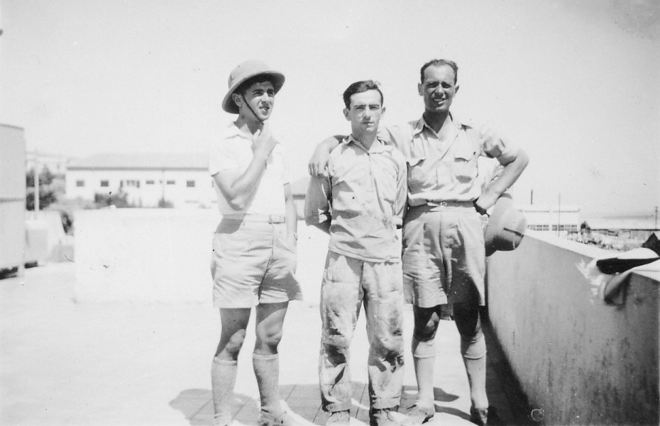 ein harod in palestain in the 30\'